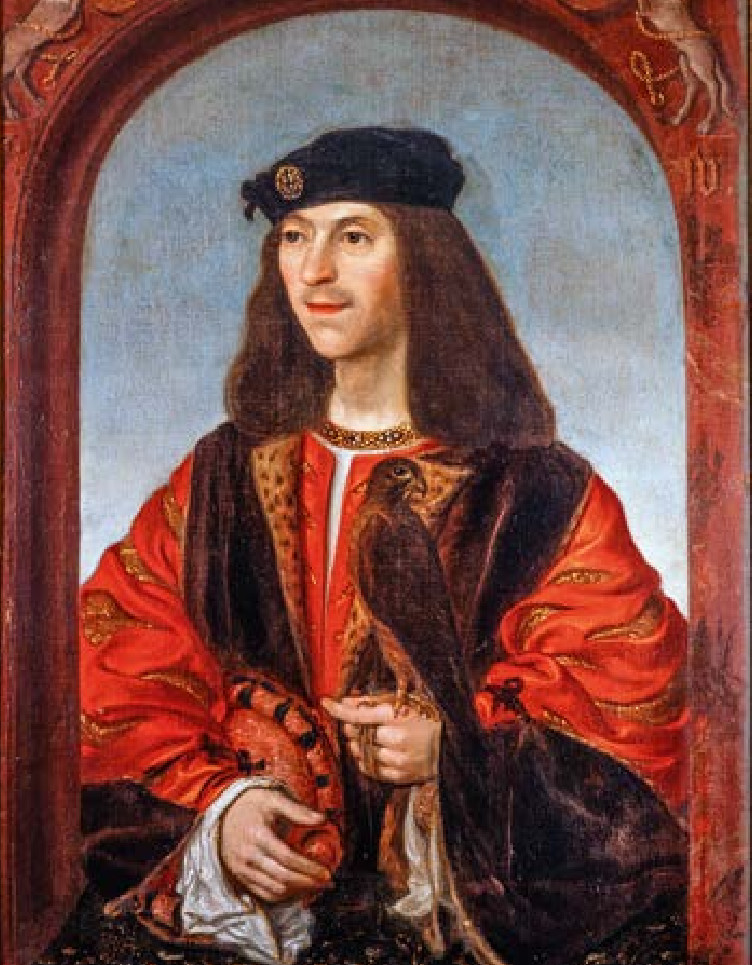 James IV, King of Scots